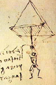 Drawing by Leonardo da Vinci - Parachute